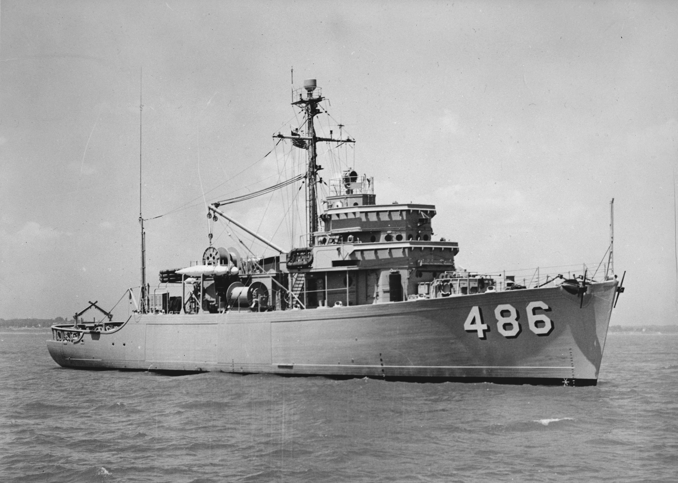 The Portugese minesweeper NRP Graciosa (M 417) during trials on Lake Michigan (USA) in June 1955. The ship shows the U.S. Navy designation AM-486 (later MSO-486), but was built for Portugal. Graciosa was built at the Burger Boat Company, Manitowoc, Wisconsin (USA). She was commissioned on 15 August 1955 and scrapped in 1973.